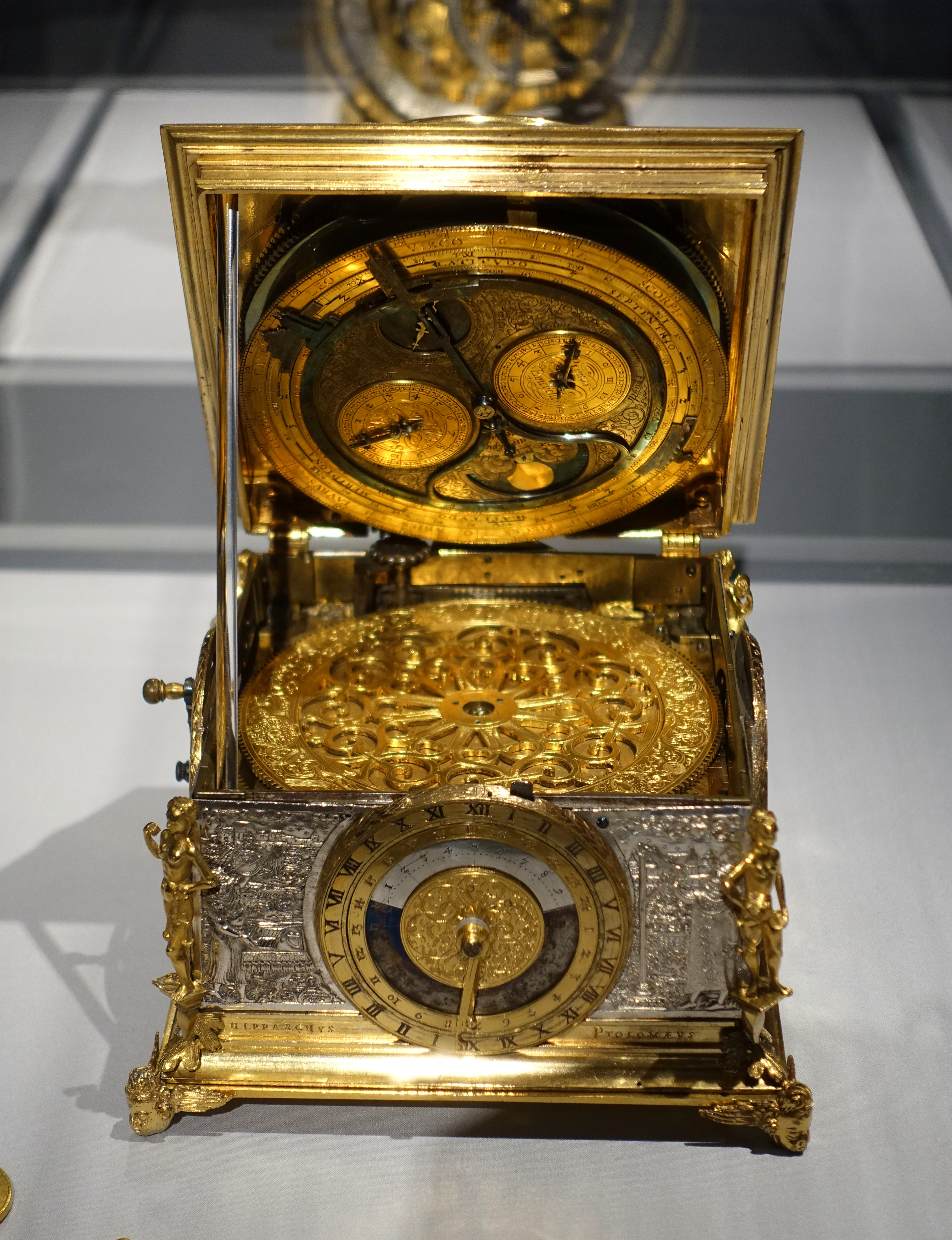 Exhibit in the Metropolitan Museum of Art - New York City, New York, USA.